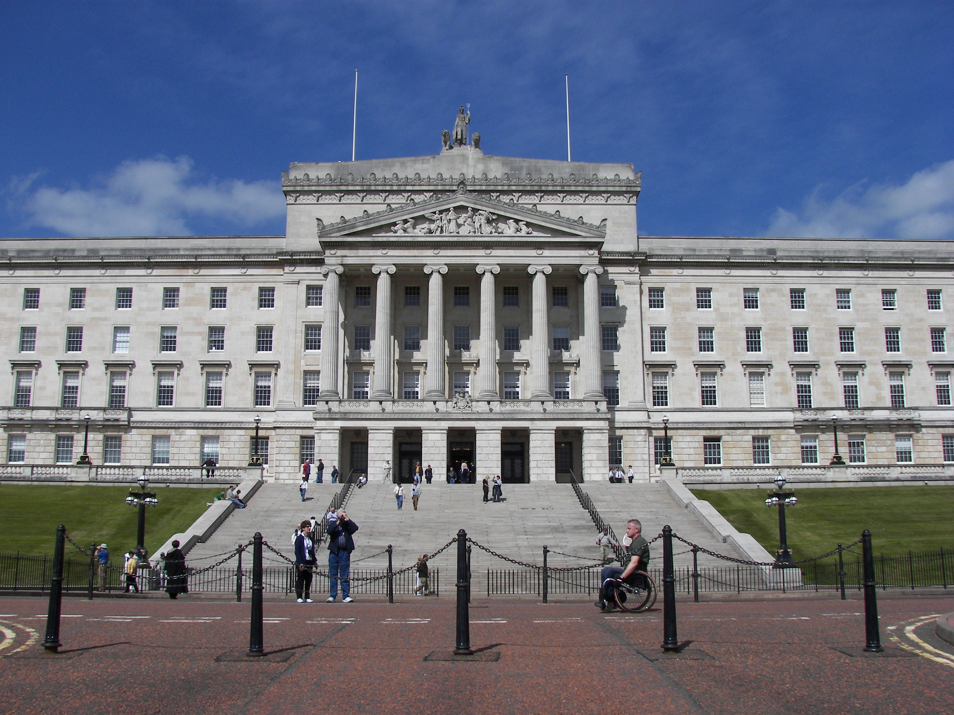 Parliament Buildings of Stormont in Belfast, Northern Ireland.